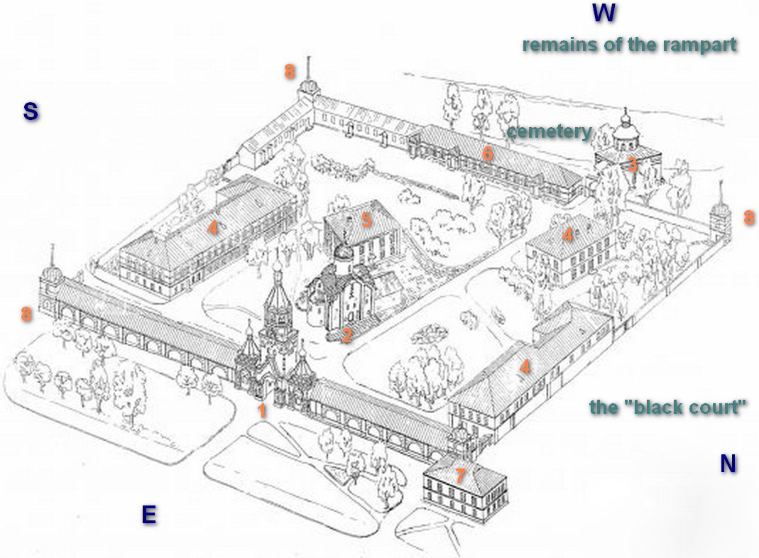 A plan of the Desyatinny monastry